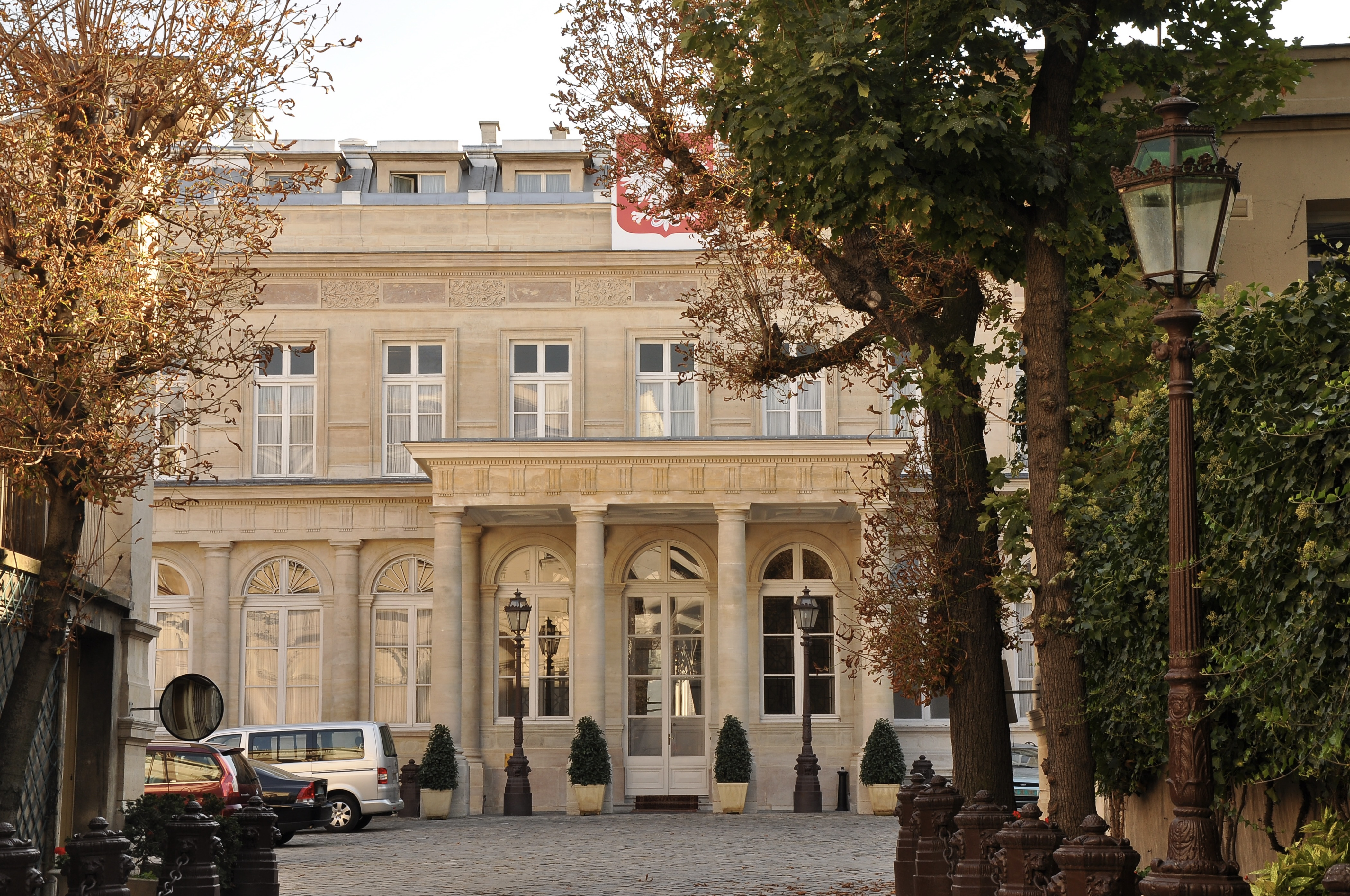 Polish Embassy in Paris, installed in Hôtel de Monaco n°57 rue Saint-Dominique, 7th arrondissement, France.